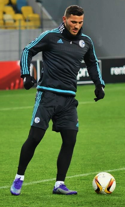 Sead Kolašinac